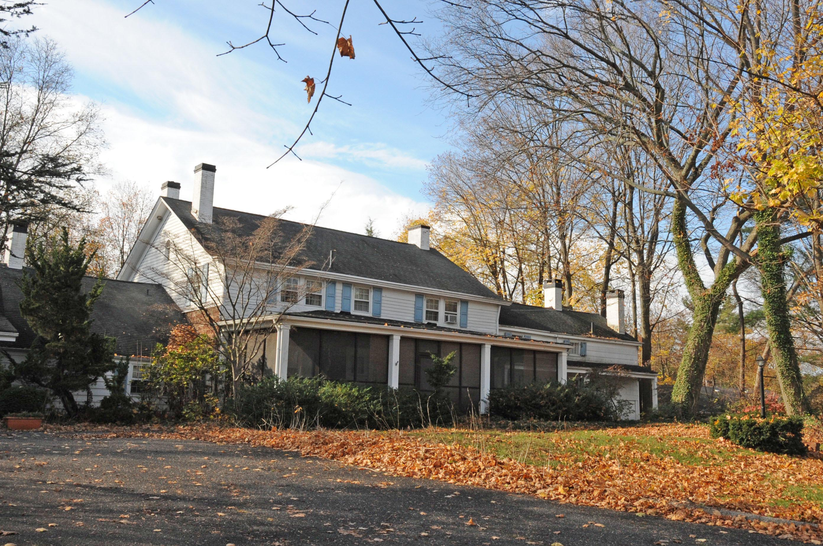 BUILT 1745-1750;. OLDEST HOUSE IN WASHINGTON TOWNSHIP AND THIRD OLDEST IN BERGEN COUNTY. WASHINGTON WAS A FREQUENT VISITOR. THEODORE ROOSEVELT STAYED HERE WHILE WRITING ARTICLES FOR HOWLAND’S PUBLICATIONS. IT IS ALSO BELIEVED TO HAVE BEEN A STOP ON THE UNDERGROUND RAILROAD